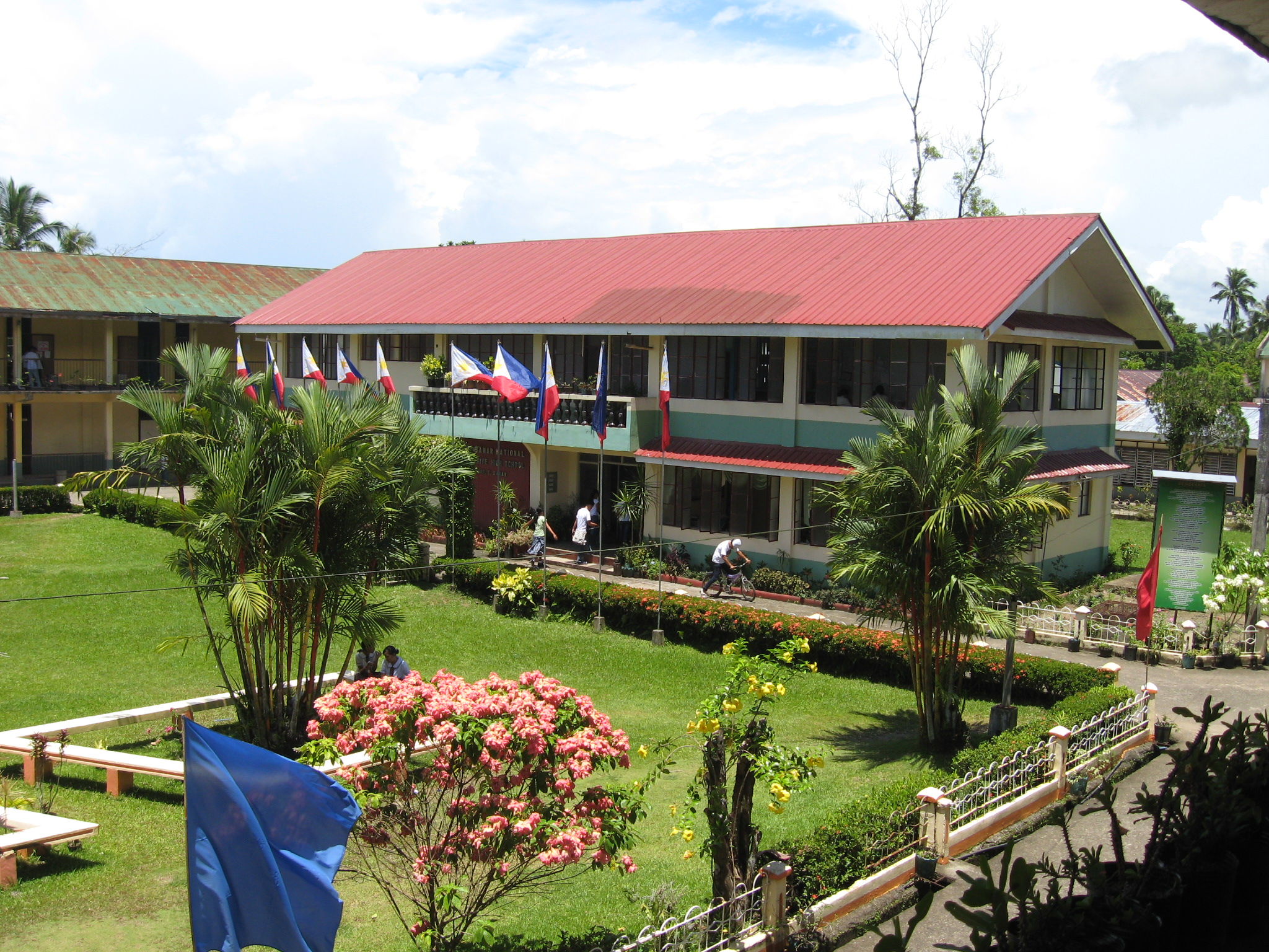 This is the Administration Building of Eastern Samar National Comprehensive High School located in Borongan City, Eastern Samar, The Philippines